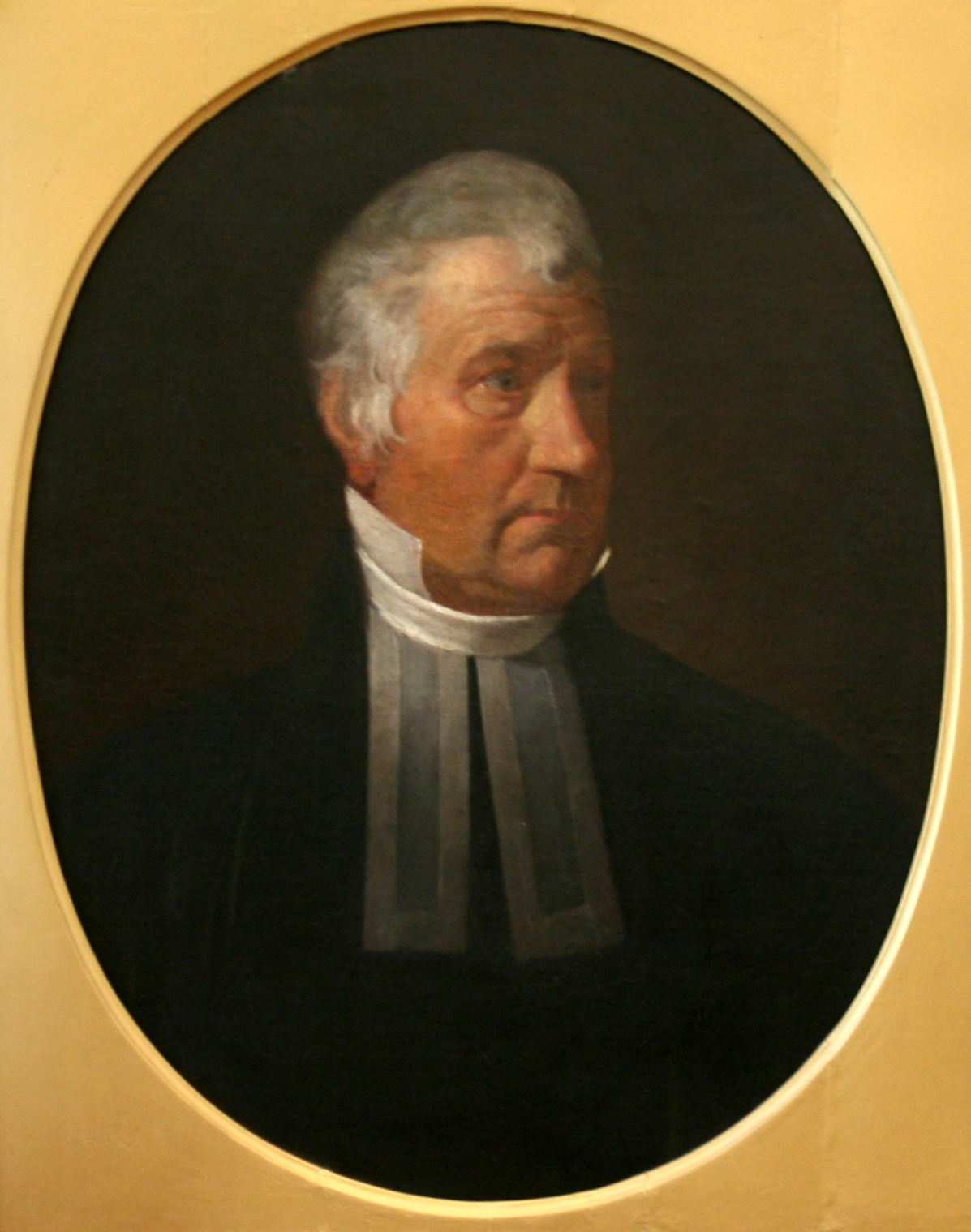 Portrait of the Rev. Dr. Harry Croswell, Rector of Trinity Episcopal Church on the Green, New Haven, Connecticut, USA, circa 1835.